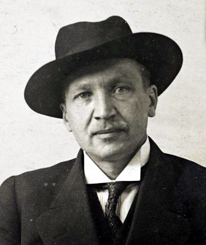 Kullervo Achilles Manner, chairman of the Finnish People's Delegation and appointed dictator by the Reds during the socialist insurrection of 1918. (Olle Leino: Utsikt från Skillnaden. Inbördeskriget i Helsingfors 1918 sett med gamla och nya ögon. Helsingfors 1997, Schildts.)